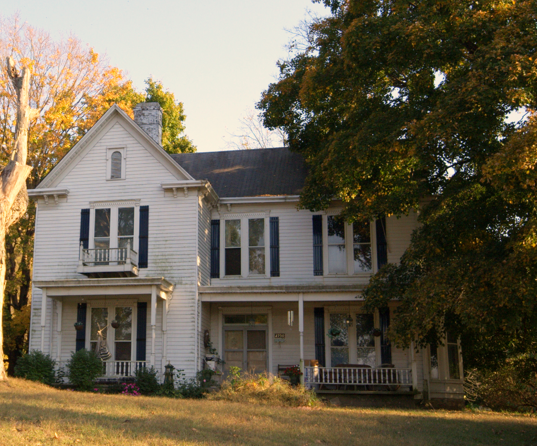 Daniel Dew House in Petersburg, Ky Photo by Greg Hume.